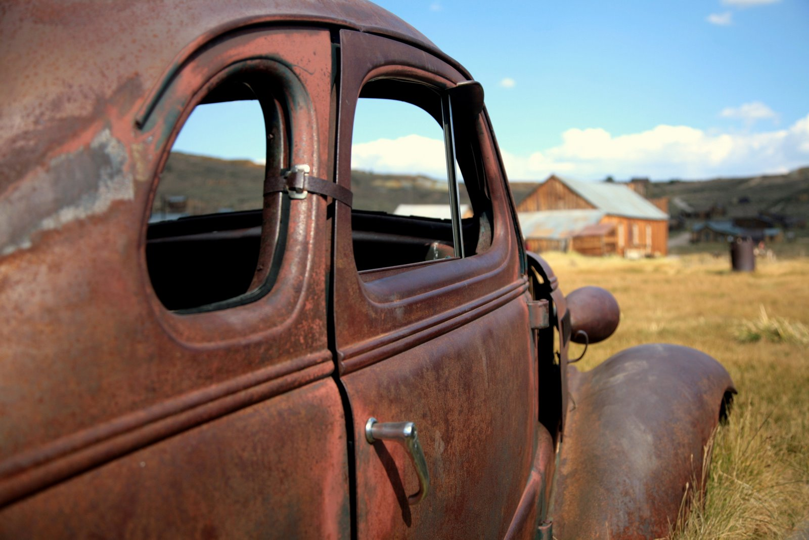 A weathered car in Bodie, CA